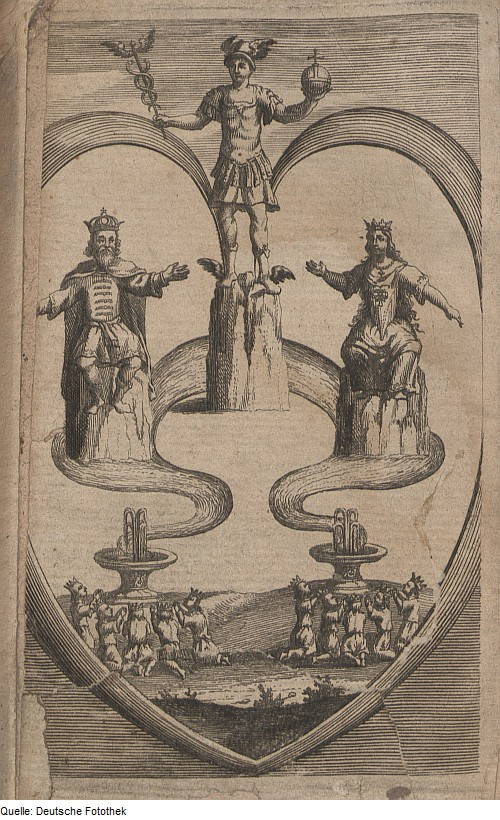 Original image description from the Deutsche Fotothek Theosophie & Alchemie